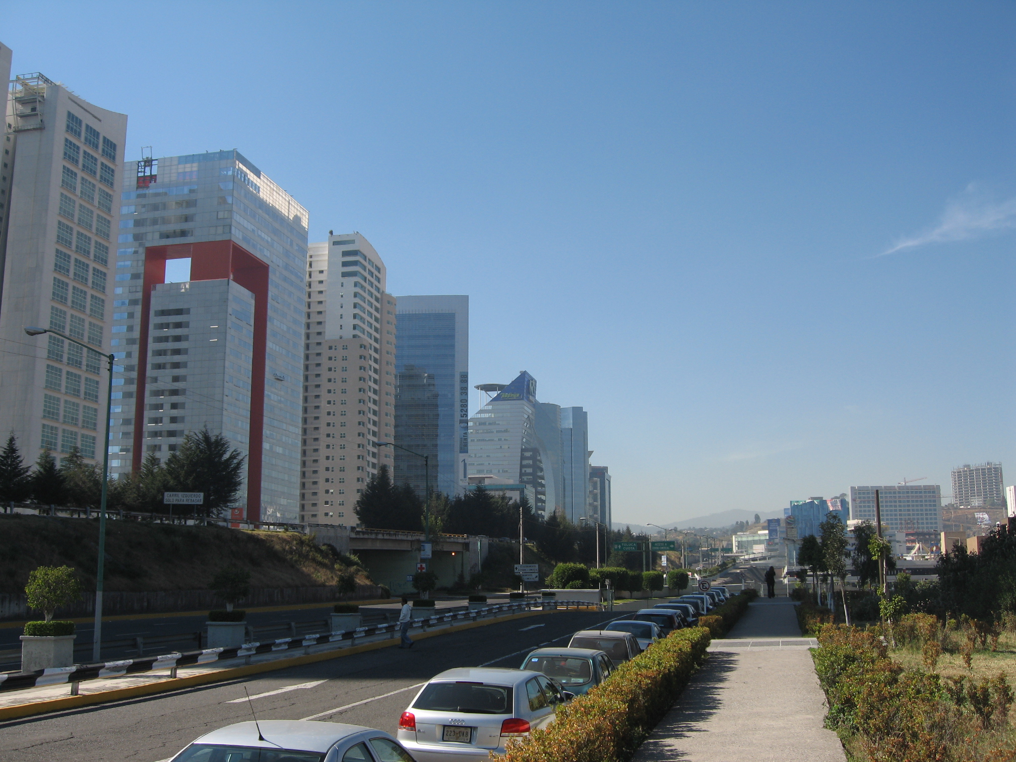 Partial view of Santa Fe.